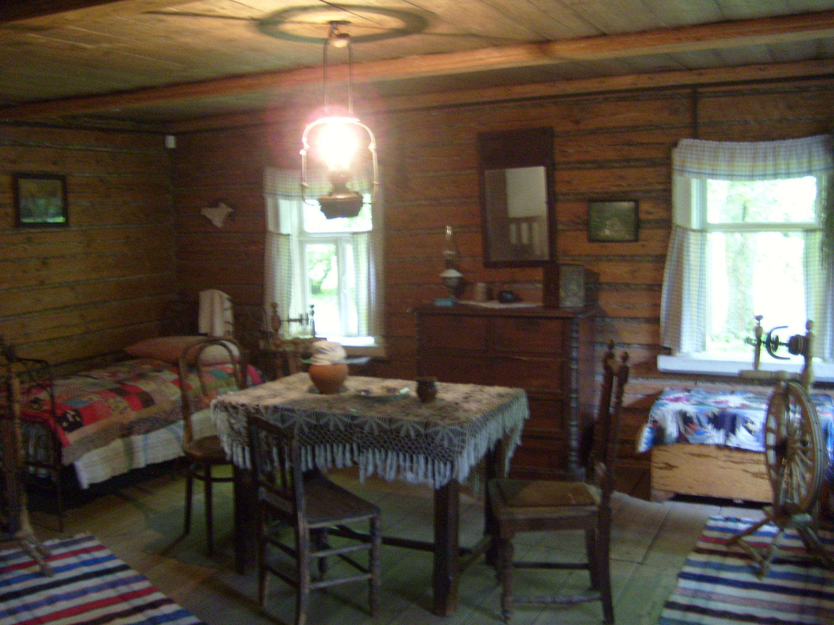 Room next to the kitchen at Melikhovo where house servants lived and worked